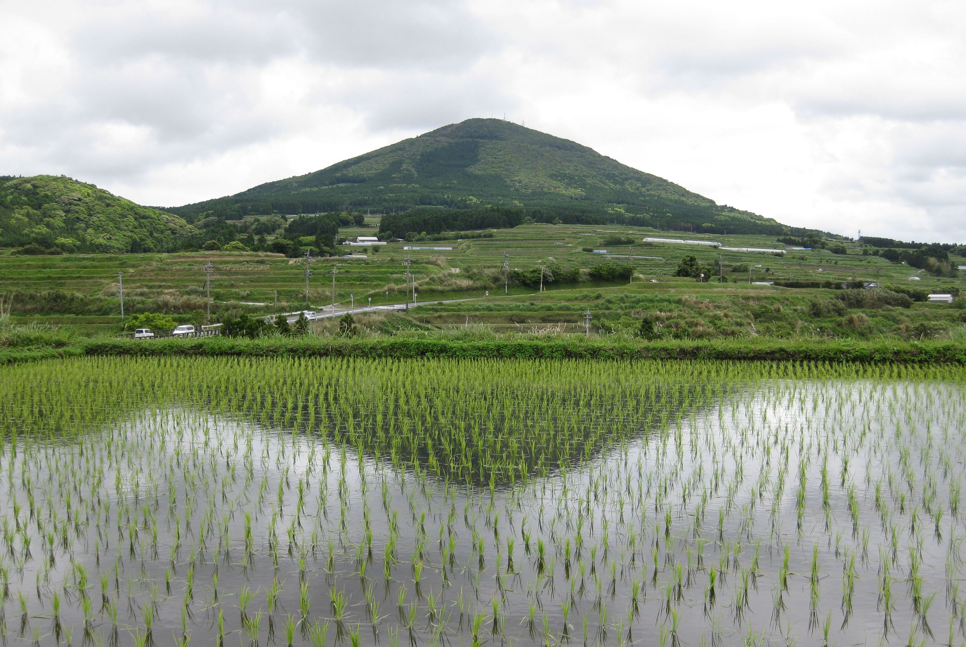 Mt. Ōnodake rises in Kagoshima, Japan